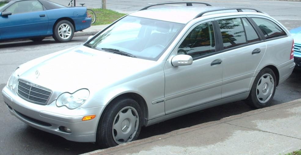 2001-2007 Mercedes-Benz W203 C-Class photographed in Montreal, Quebec, Canada